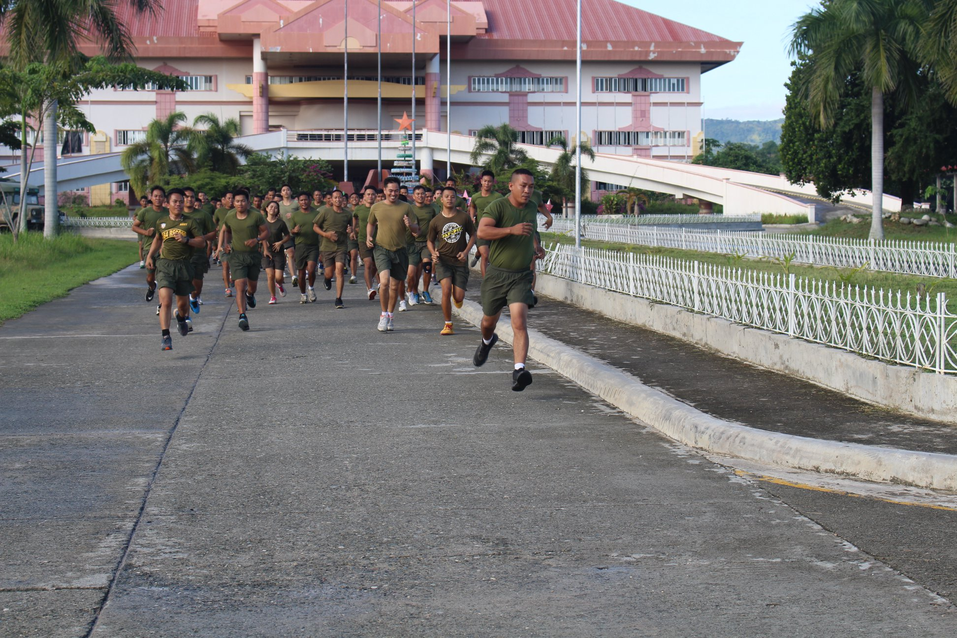 Owned by Unifierbrigade PA (601st Infantry Brigade), and it is public domain. The Maguindanao Old Capitol located at Shariff Aguak, and it is now home of the one of the infantry brigades of the Philippine Army.